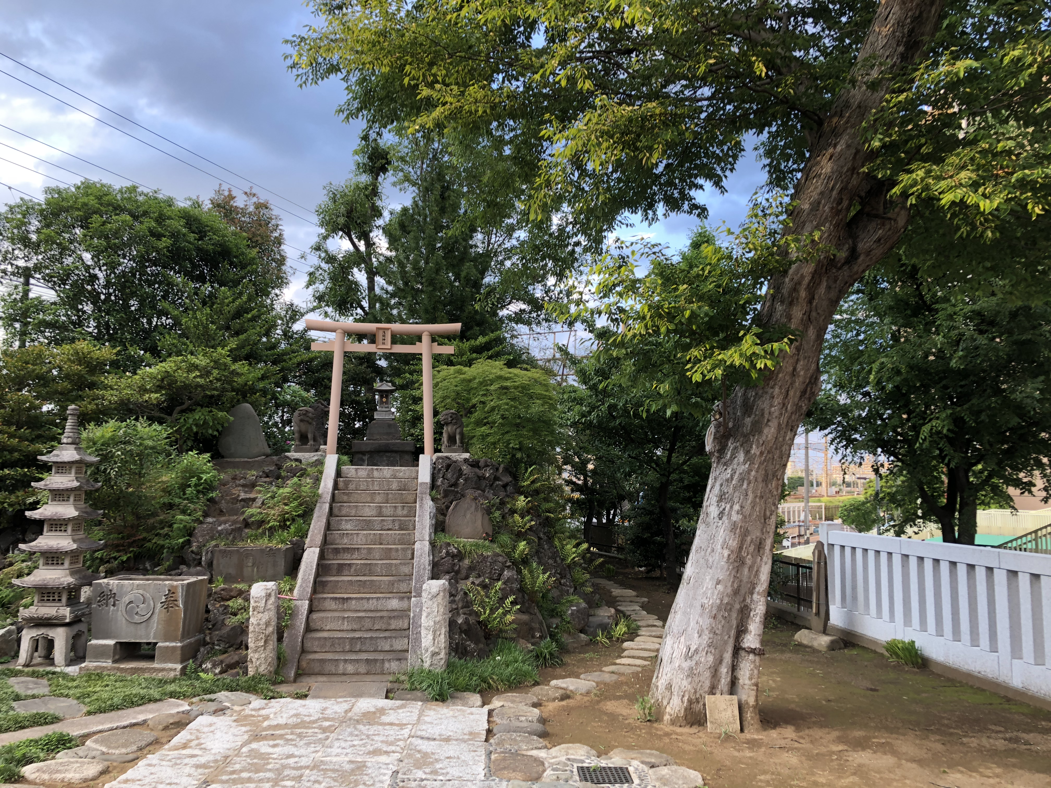 Mt.Fuji-shaped mound,Tsurumi Shrine(Yokohama-shi),JAPAN